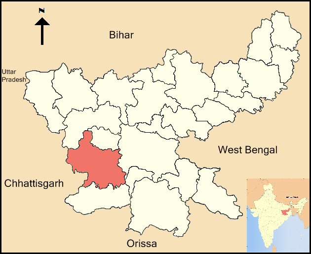 A locator map of Gumla district, Jharkhand state, India